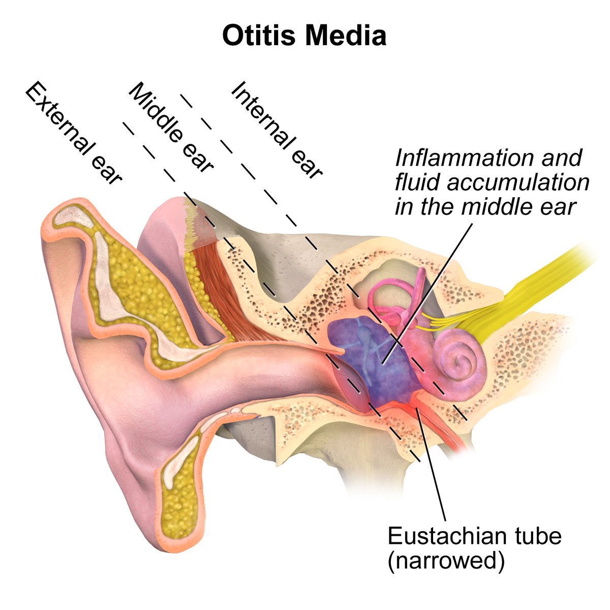 Otitis Media. See a full animation of this medical topic